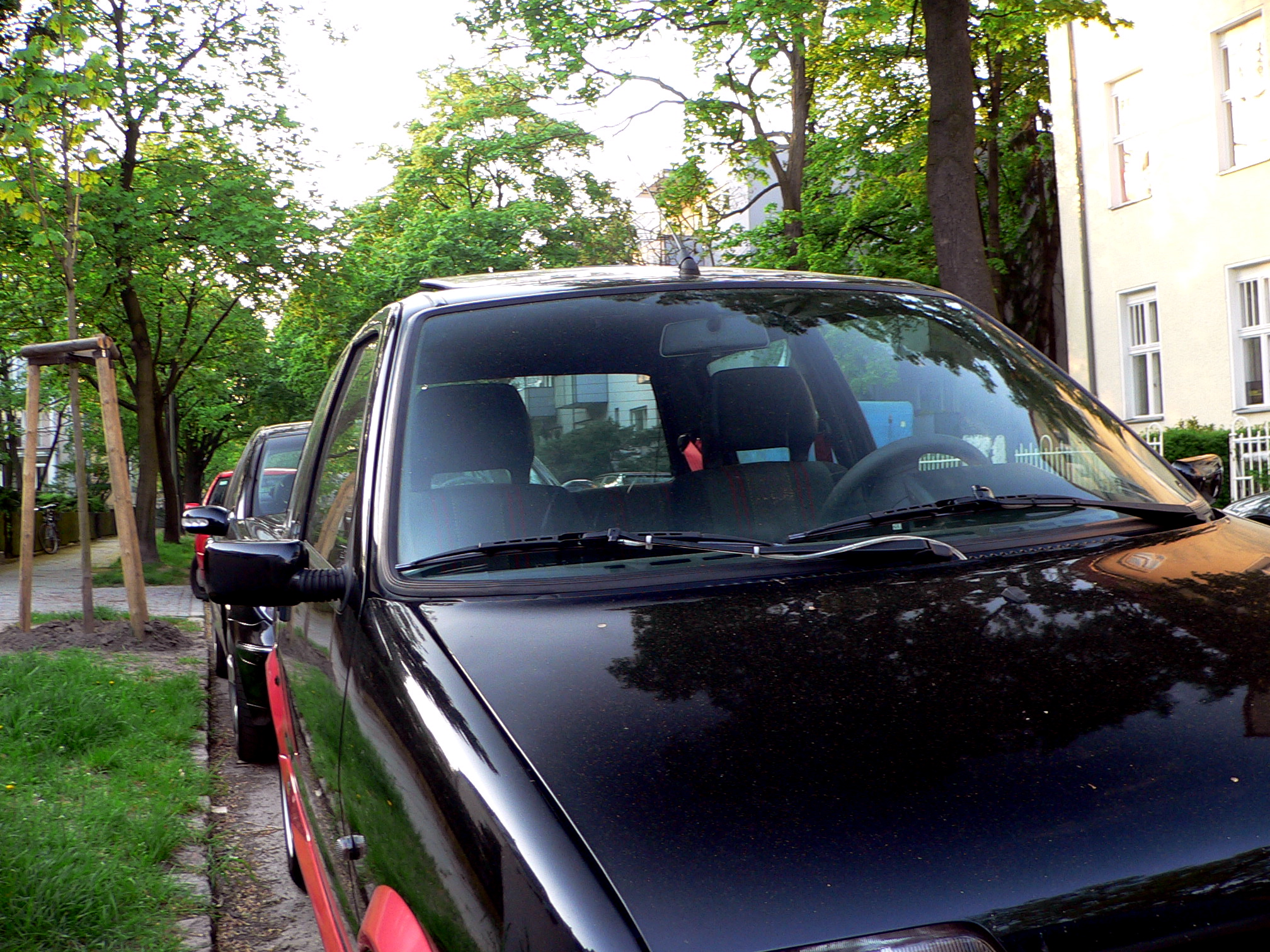 An Image with right adjusted polarizer. (See File:Polfilter falsch.jpg for false adjusted polarizer. File:Polfilter ohne.jpg shows the scene without polarizer.)